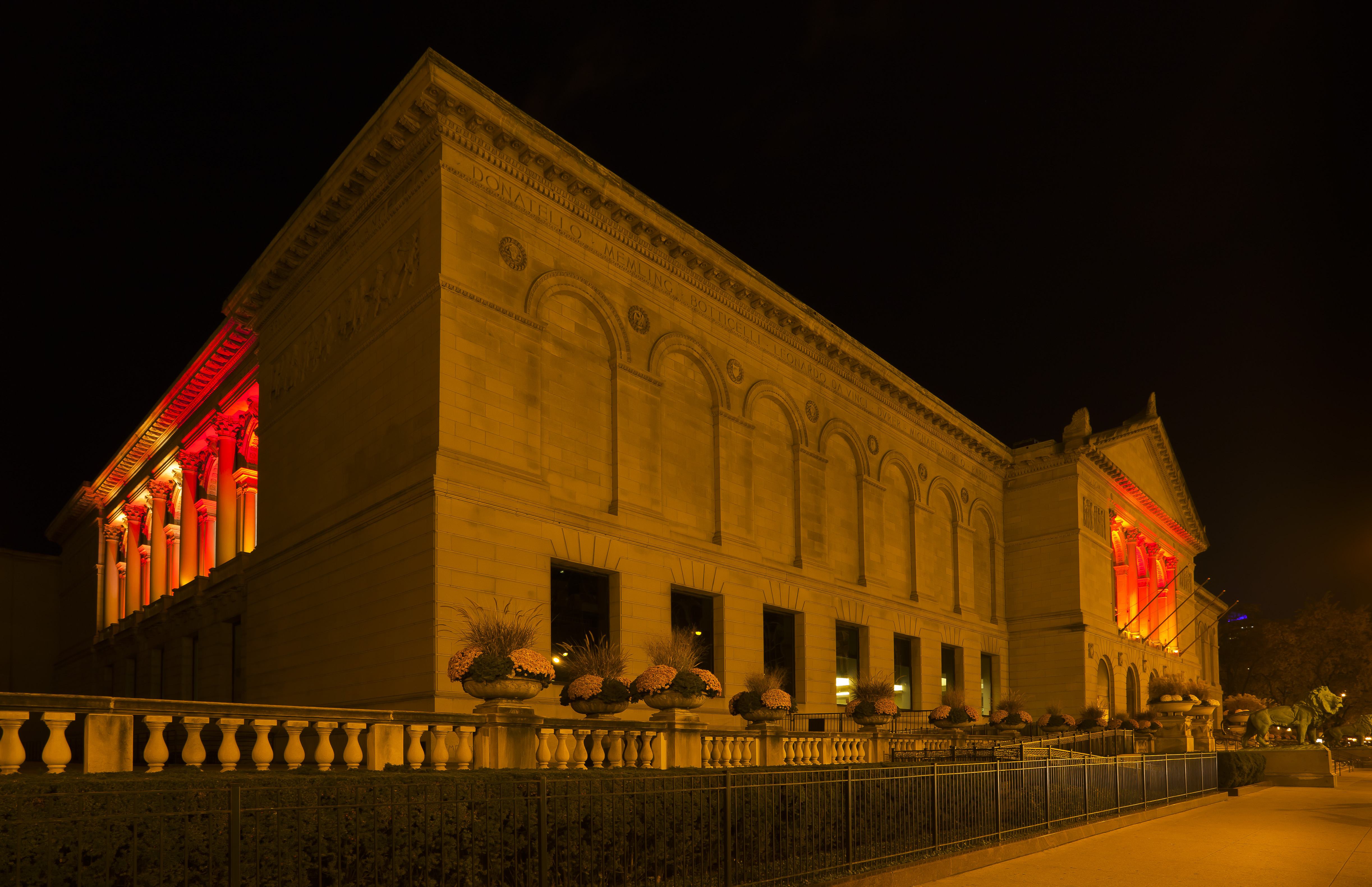 Art Institute of Chicago, Chicago, Illinois, USA